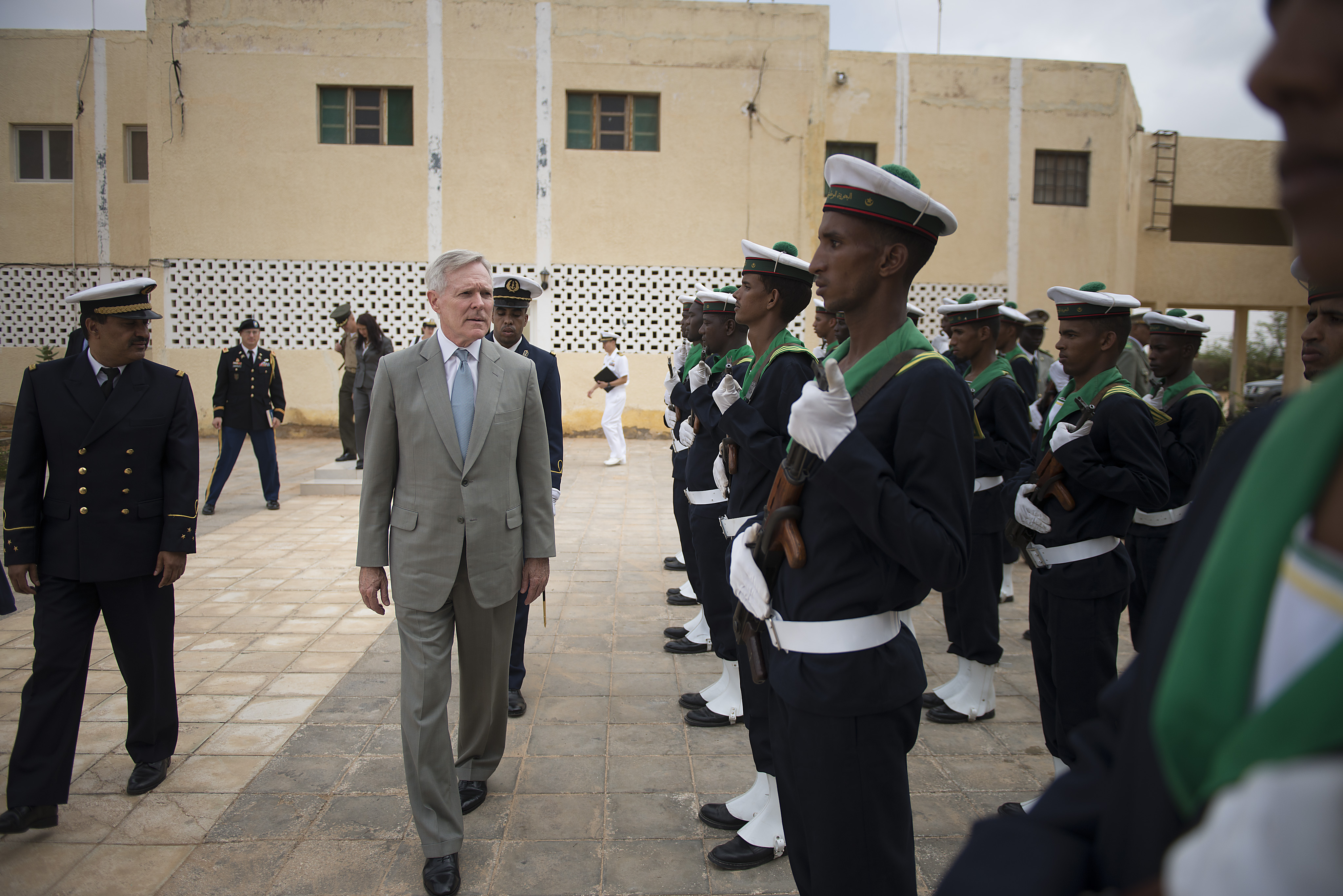 NOUAKCHOTT, Mauritania (Aug. 13, 2013) Secretary of the Navy (SECNAV) Ray Mabus reviews Mauritanian military personnel during his visit to the African nation’s capital. Mauritania is one of several countries throughout the region where Mabus is meeting with Sailors and Marines, and civilian and military officials to discuss security and stability and to reinforce existing partnerships with African nations. (U.S. Navy photo by Mass Communication Specialist 1st Class Arif Patani/Released) 130813-N-PM781-007 Join the conversation navylive.dodlive.mil